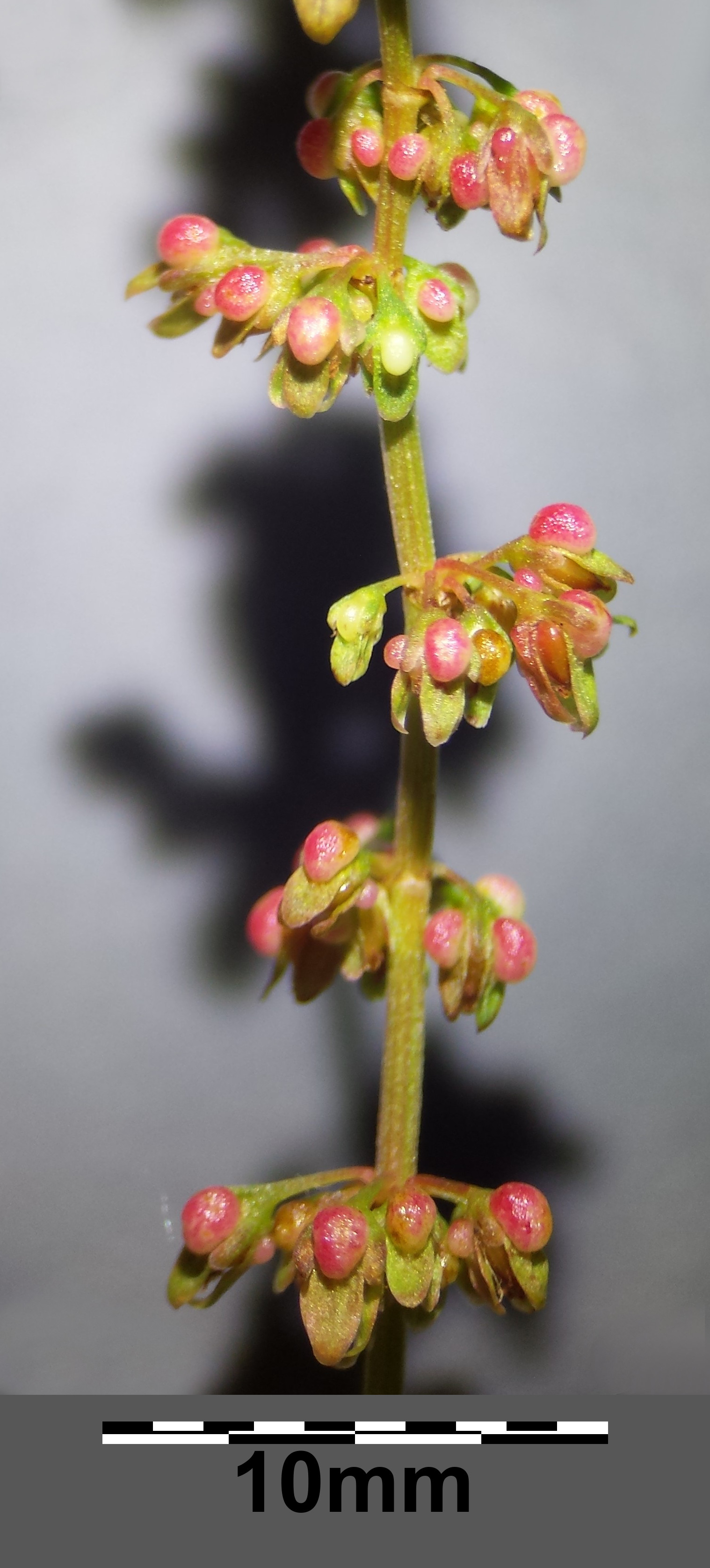 Inflorescence Taxonym: Rumex sanguineus ss Fischer et al. EfÖLS 2008 ISBN 978-3-85474-187-9 Location: Rohrwald, district Korneuburg, Lower Austria - ca. 250 m a.s.l. Habitat: wet shrubbery